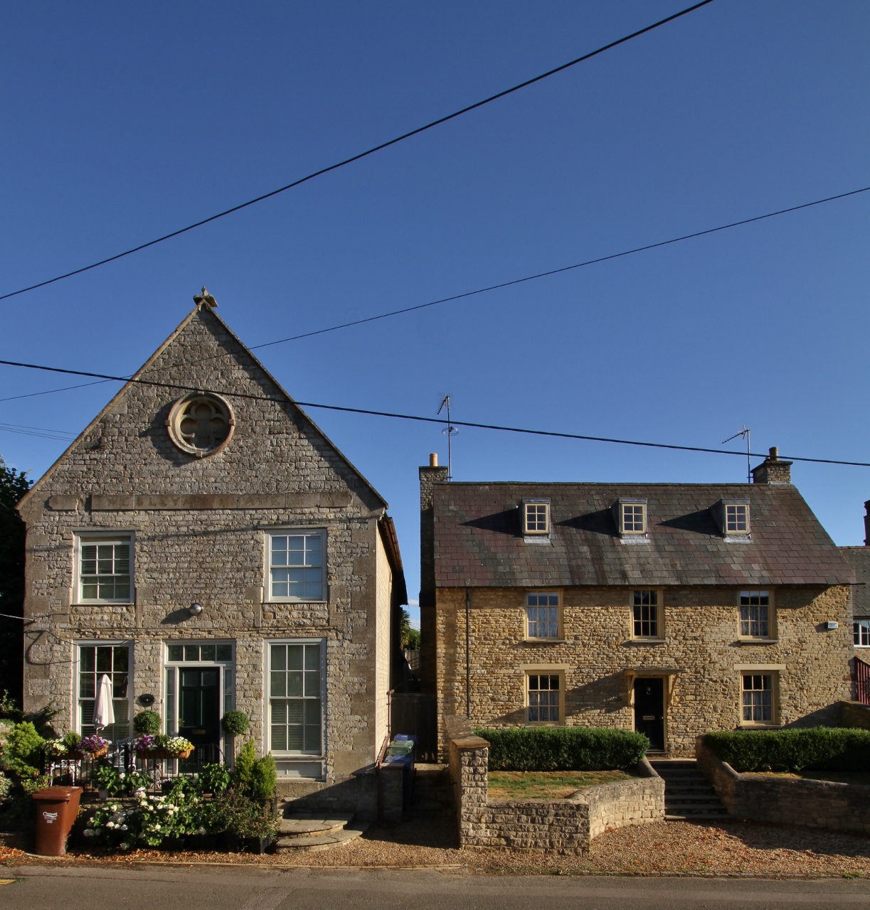 Heyford Galleries (left) And Chapel House (right), High Street, Upper Heyford, Oxfordshire, seen from the north. Heyford Galleries was built in 1867 as a Methodist chapel. It is now a private house.